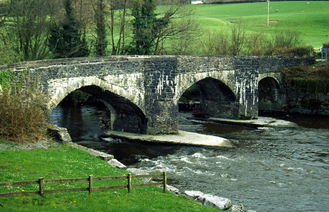 Afon Cothi, Abergorlech. This bridge carries a minor road leading south of Abergorlech village.